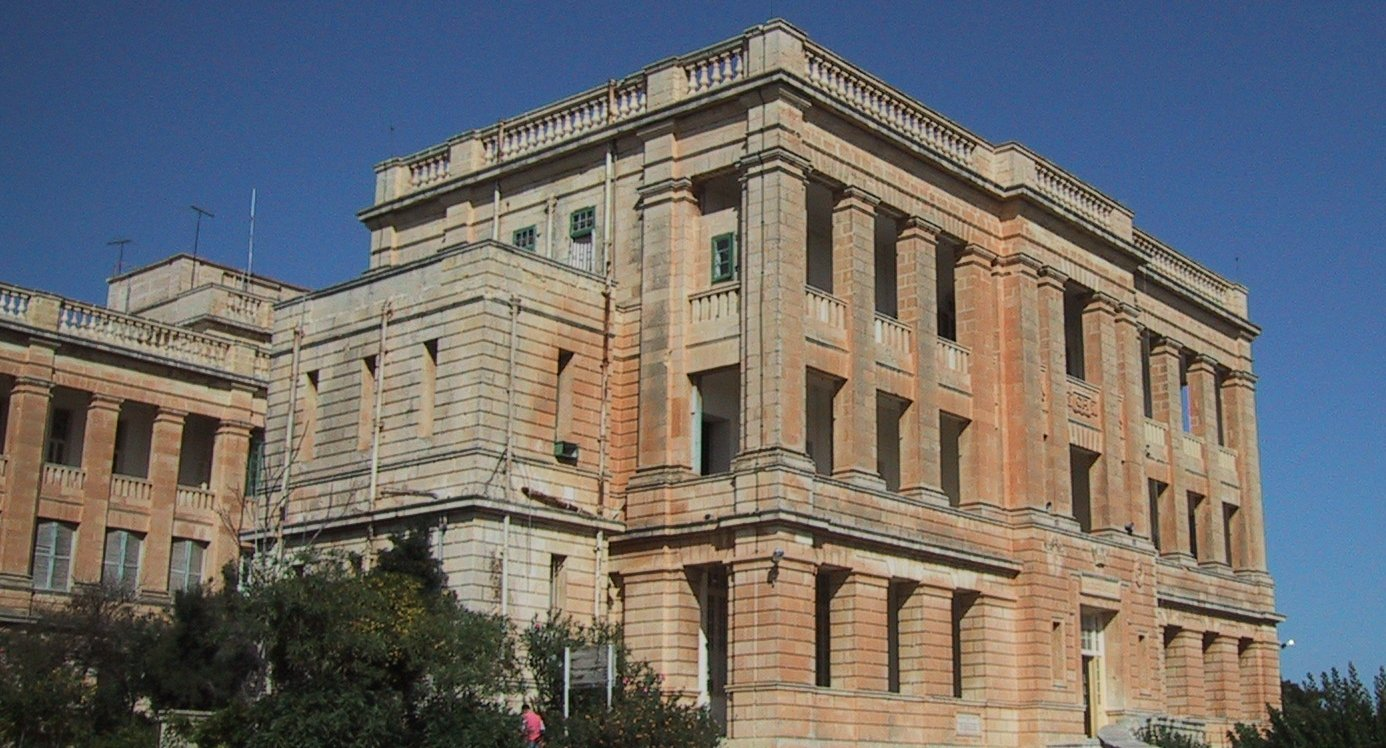 David Bruce Royal Naval Hospital - Mtarfa, Malta